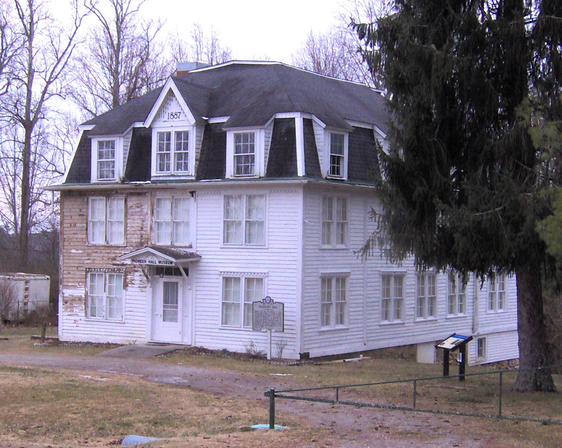 The Pioneer Hall Museum in Pleasant Hill, Tennessee, USA. The building was originally part of the Pleasant Hill Academy, a mission school established in the 1880s to help educate children living in rural areas of the Cumberland Plateau.